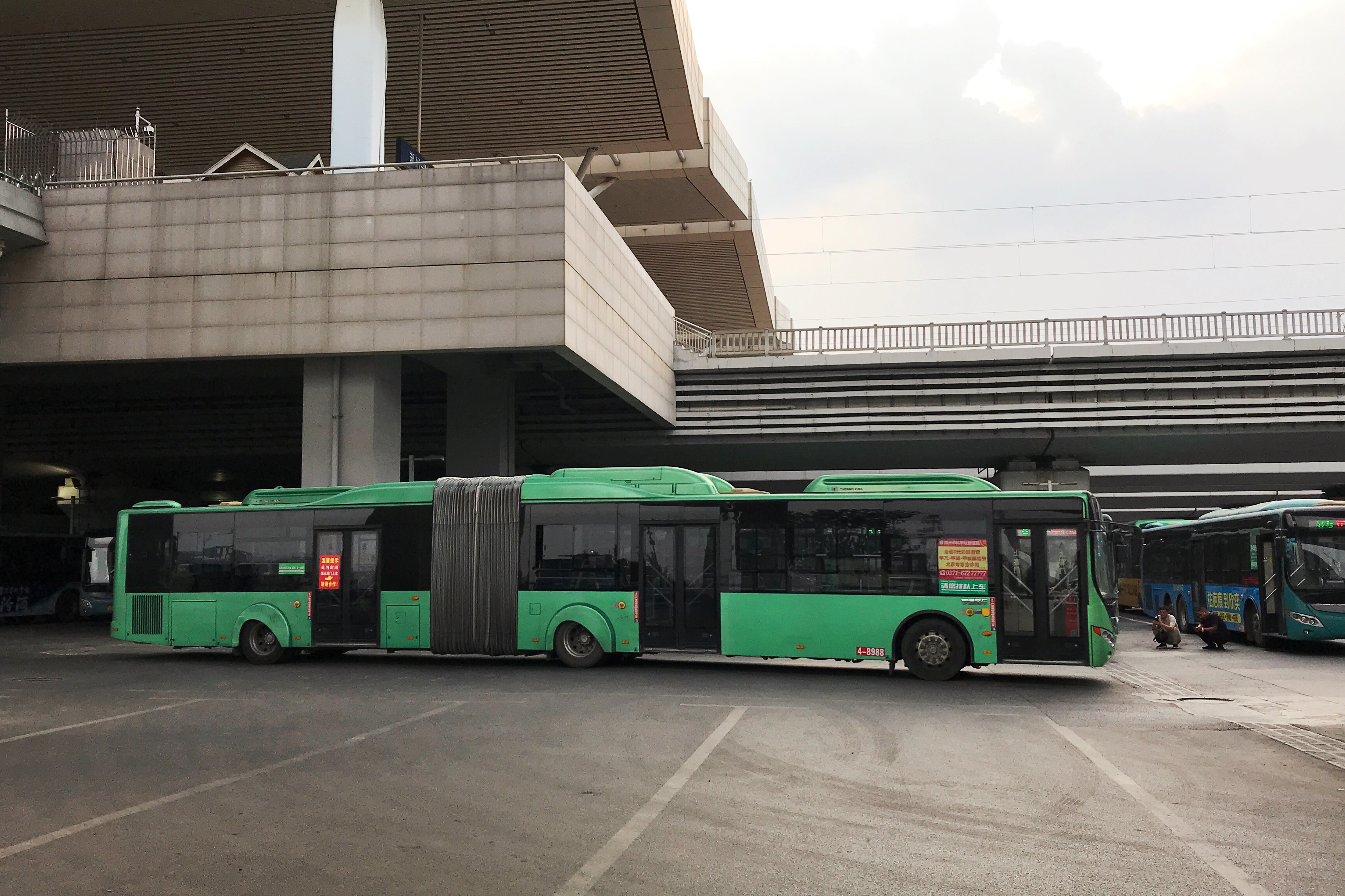 Yutong ZK6180CHEVNPG3 on Zhengzhou Bus Route 85